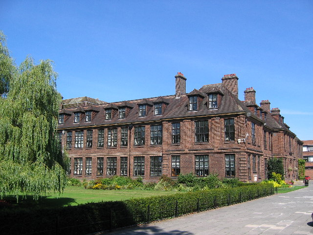 Venn building, University of Hull, Hull, East Riding of Yorkshire, England.The University buildings and grounds are on the north side of Cottingham Road, which runs EW through the square. South of the road are houses and a cemetery/crematorium in the SW corner